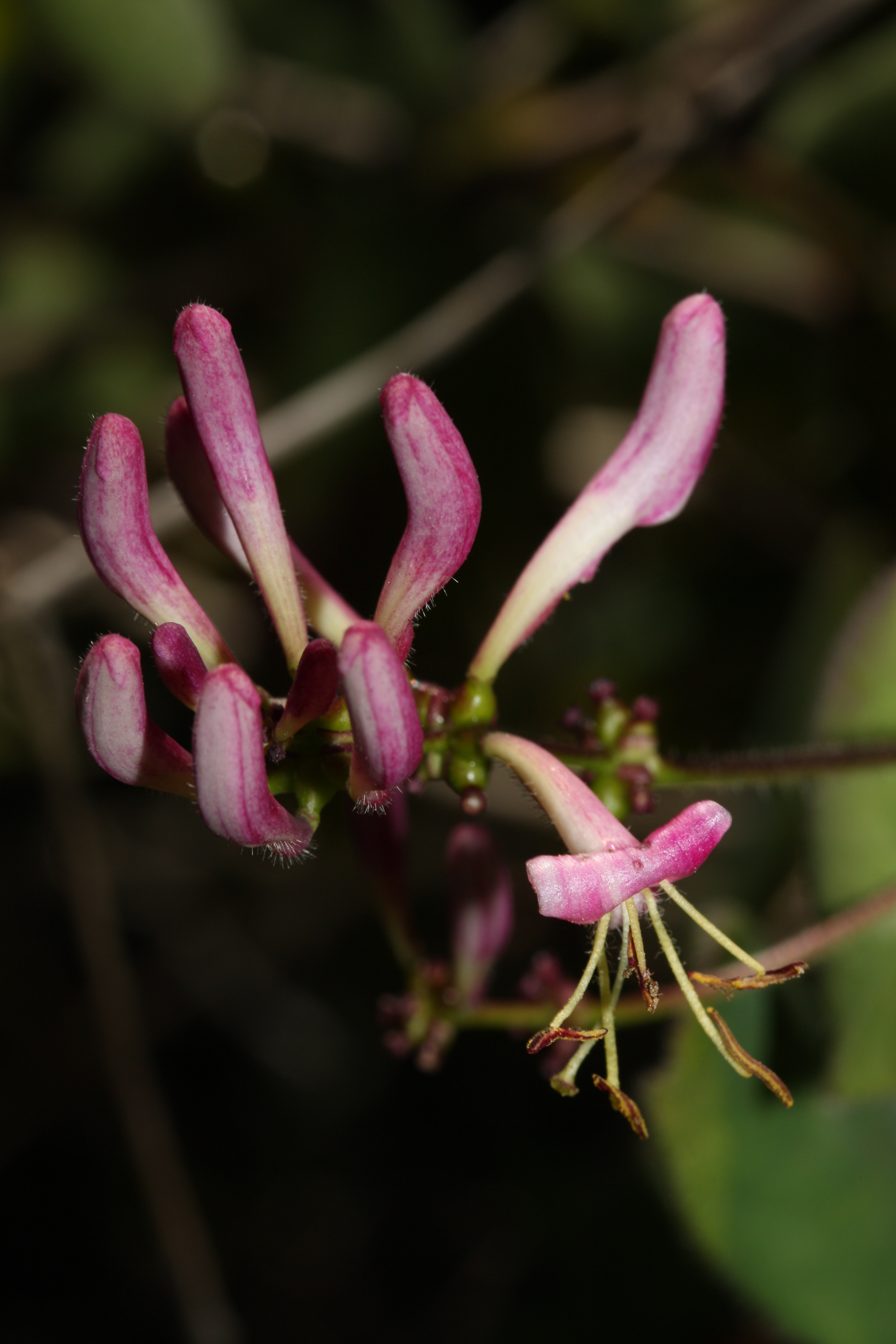 Pink Honeysuckle